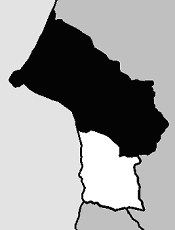 Location of Sines parish in Sines municipality. Map created by Brian Boru in December 2005.